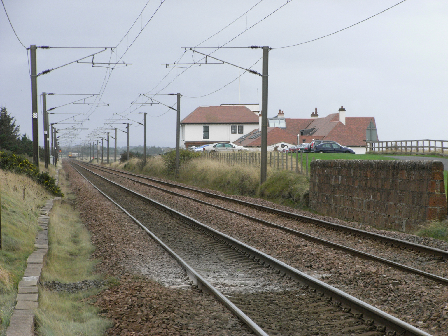 The site of Gailes railway station near Irvine, North Ayrshire. Photo by Dreamer84, taken on 6 November 2007.